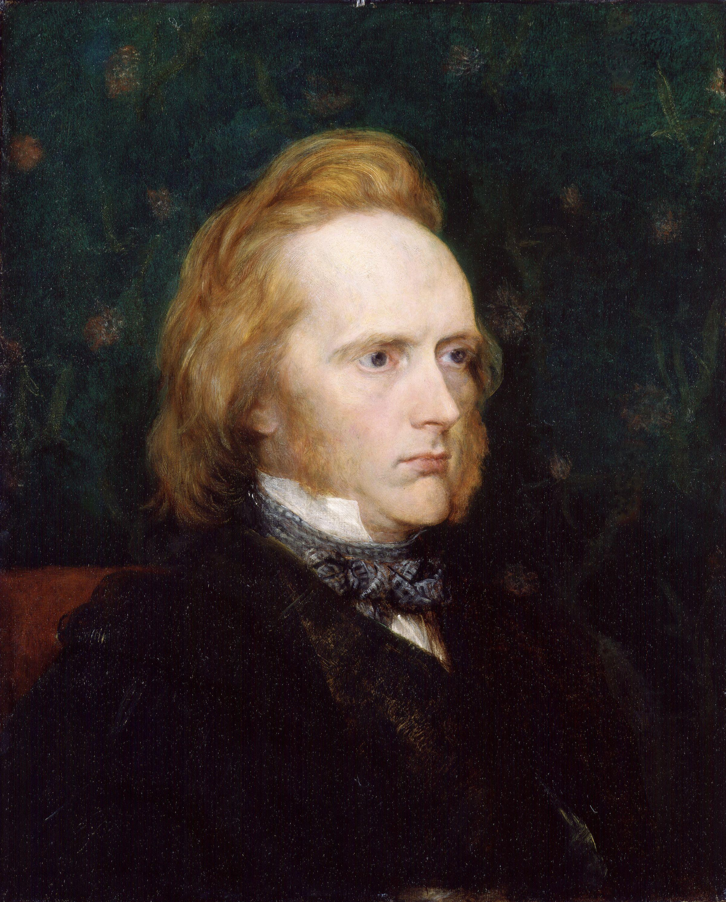 George Douglas Campbell, 8th Duke of Argyll, by George Frederic Watts (died 1904), given to the National Portrait Gallery, London in 1900. All images in this batch have been confirmed as author died before 1939 according to the official death date listed by the NPG.